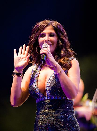 Elissar Zakaria Khoury is a Lebanese singer.